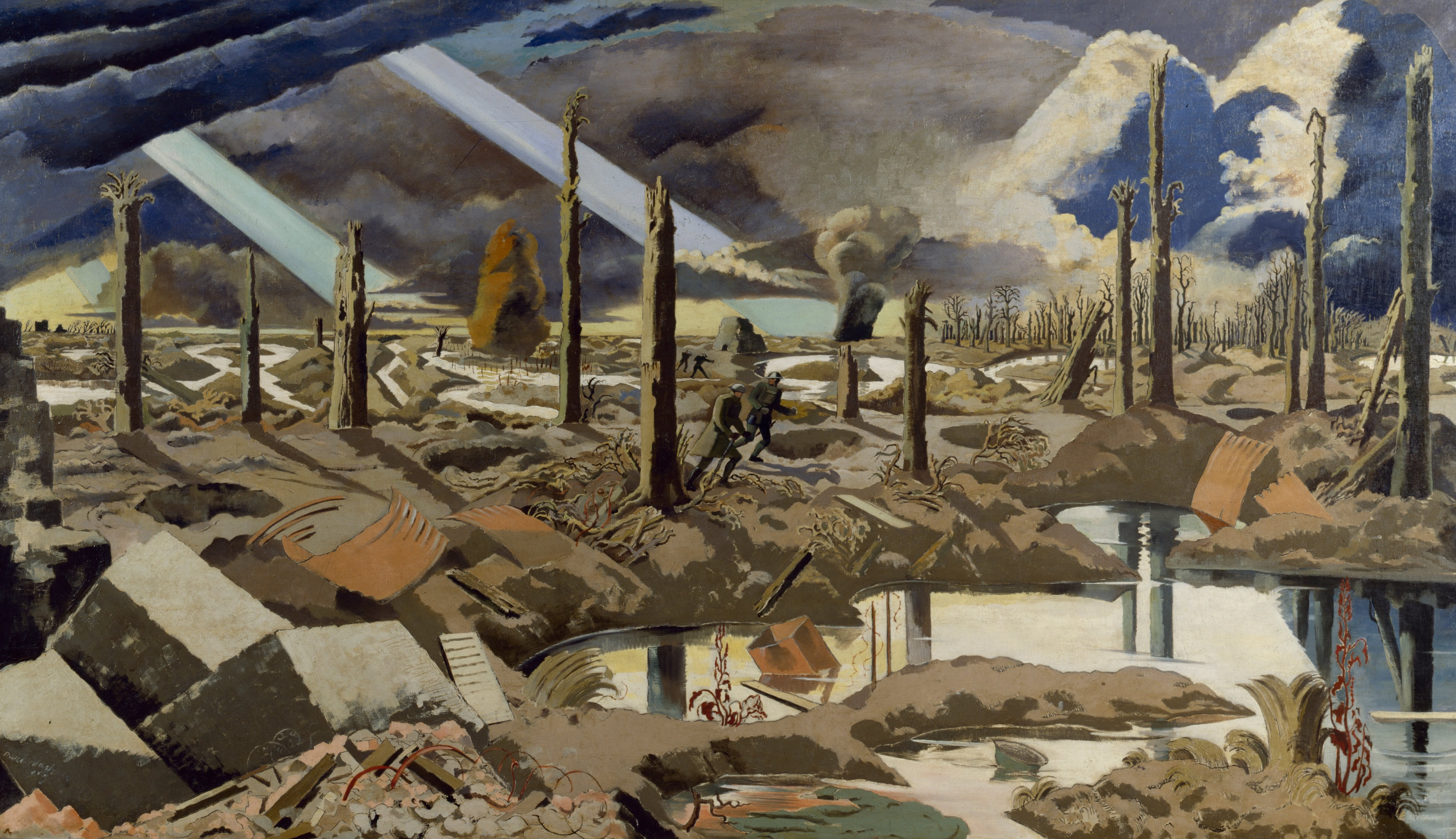 A battlefield scene from the First World War.